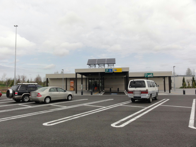 Dōtō Expressway Yuni Parking Area